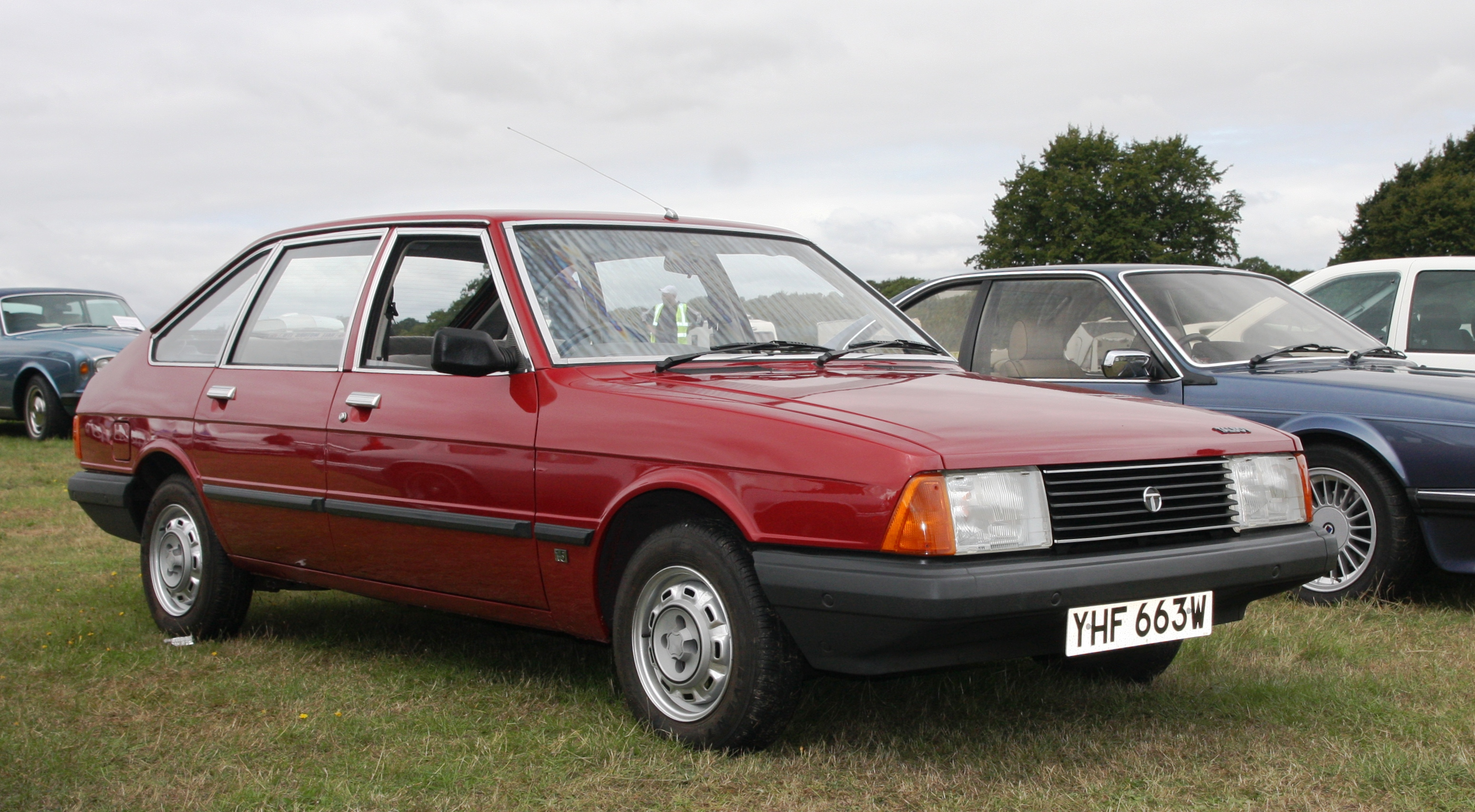 Talbot Alpine 1442cc registered June 1981